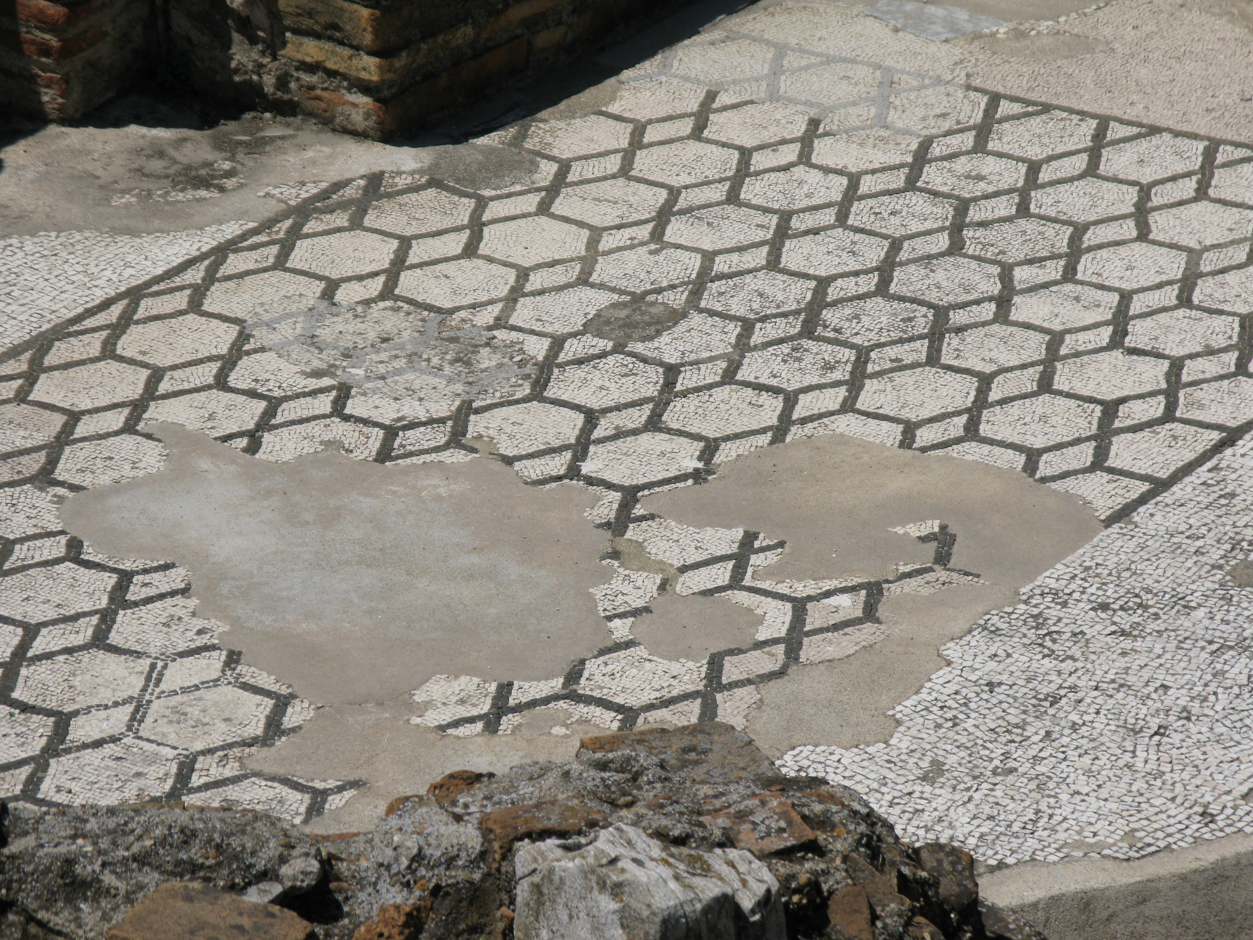 Central Mosaic, Roman Baths (Thermae) - Reggio Calabria